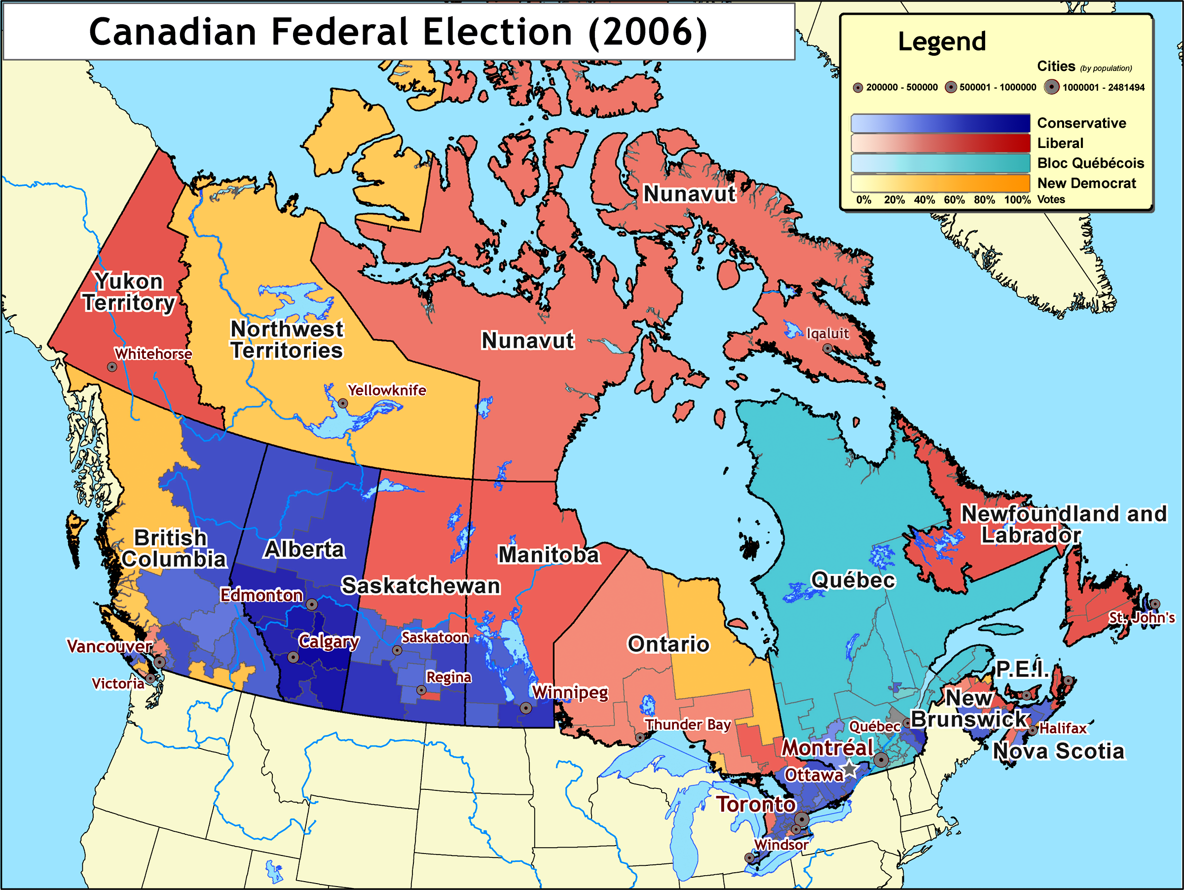 Map of the 2006 Canadian federal election results (January 23, 2006) The Conservative party won a minority government, with Stephen Harper (of Calgary, Alberta) becoming Prime Minister. Alberta is the main stronghold for the Conservative party, with major support also coming from the interior regions of British Columbia, southern Saskatchewan, and Manitoba, as well as southern Ontario. Map created by Kmf164 (January 24, 2006). Map compiled using ArcGIS, Adobe Illustrator, and Adobe Photoshop, and is derived from data sources including: Geogratis - Natural Resources Canada / Elections Canada - Electoral district boundaries. The source data is copyright by the Government of Canada, however is free to use for any purpose, as long as acknowledgement is provided. Elections Canada - Elections results data.